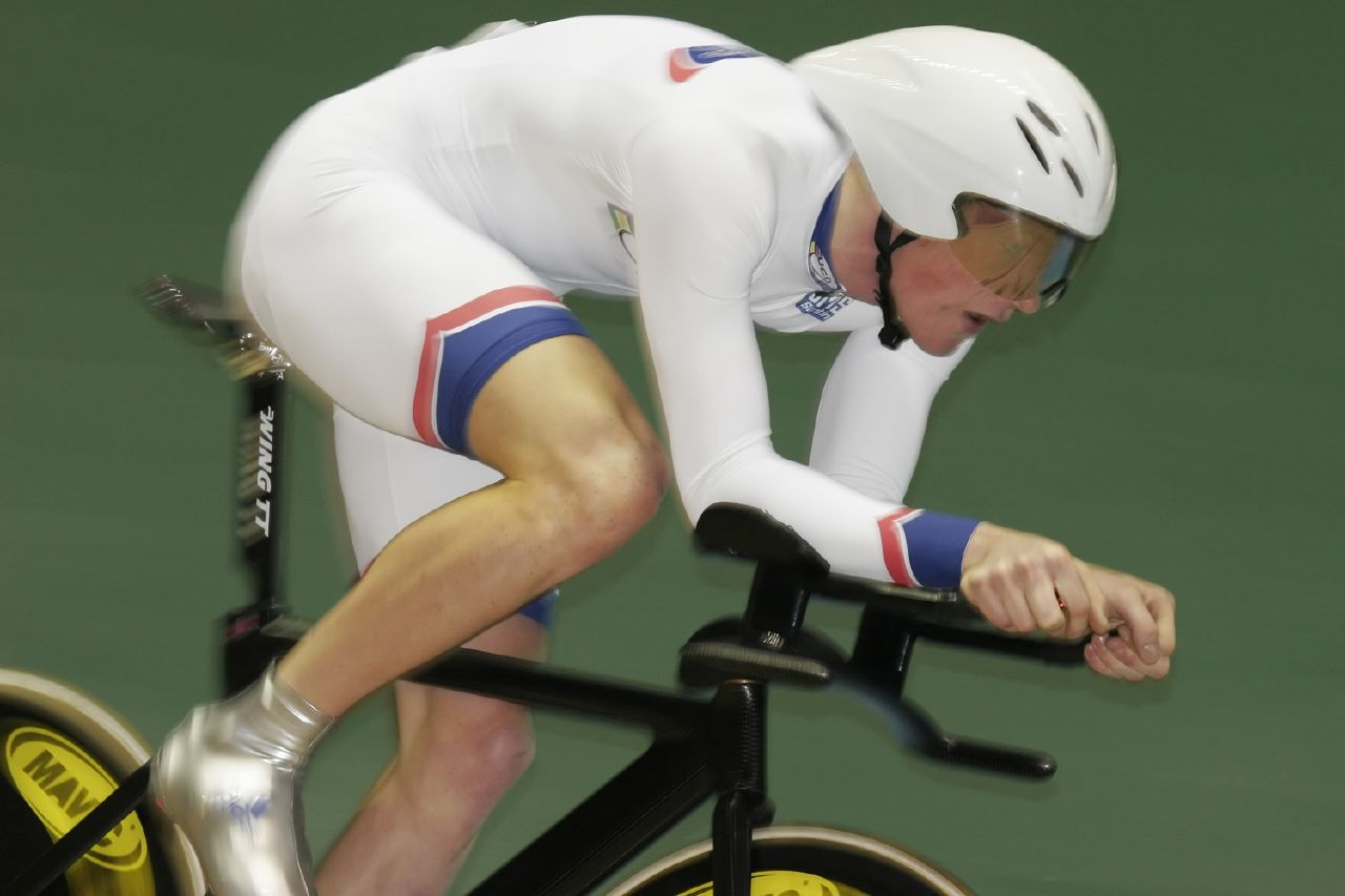 World Track Cycling Championships - Egg position